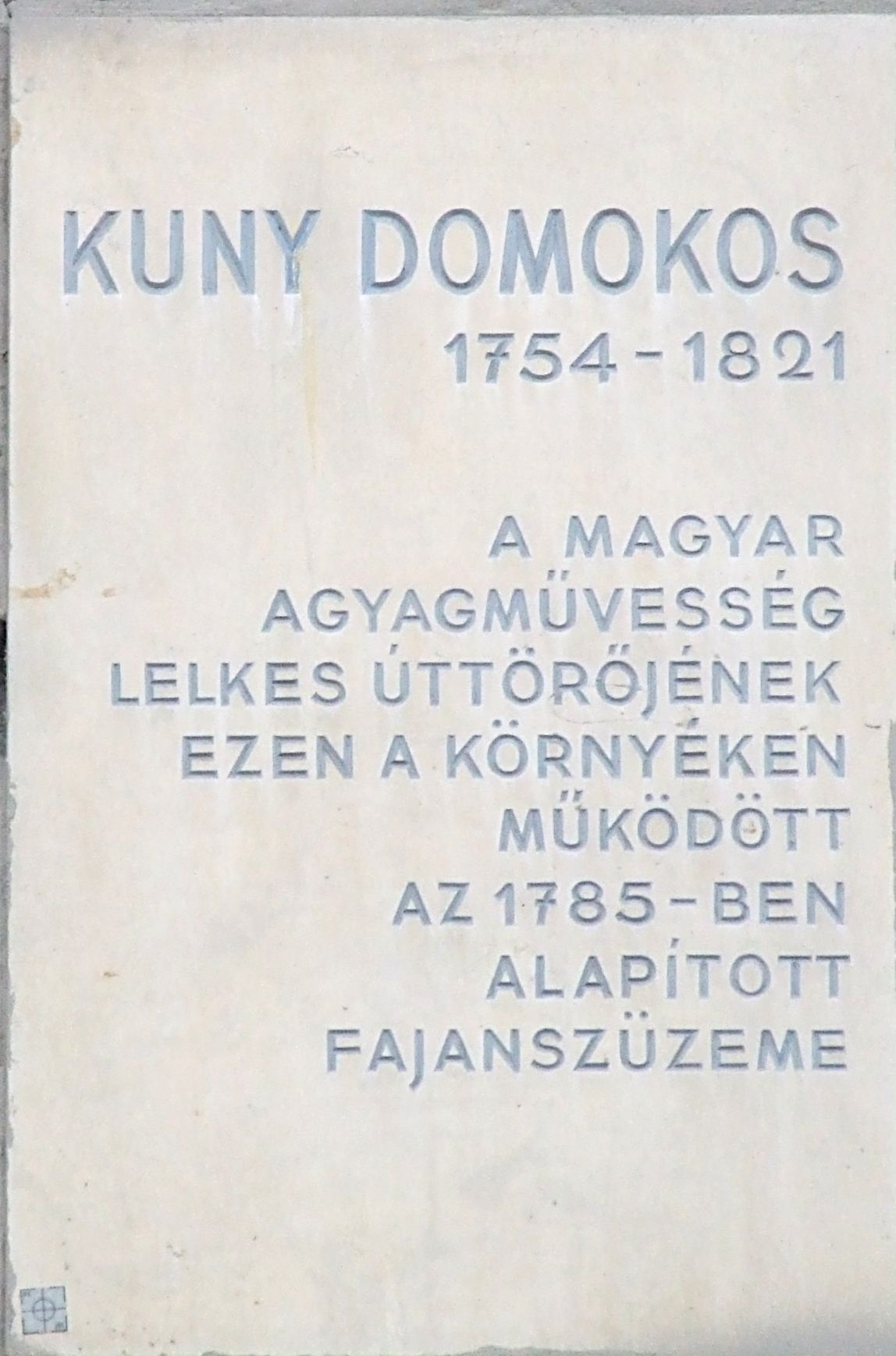 Domokos Kuny commemorative plaque in memory of the earthenware factory founded in 1785, in Budapest District I, Kuny Domokos Street No 1